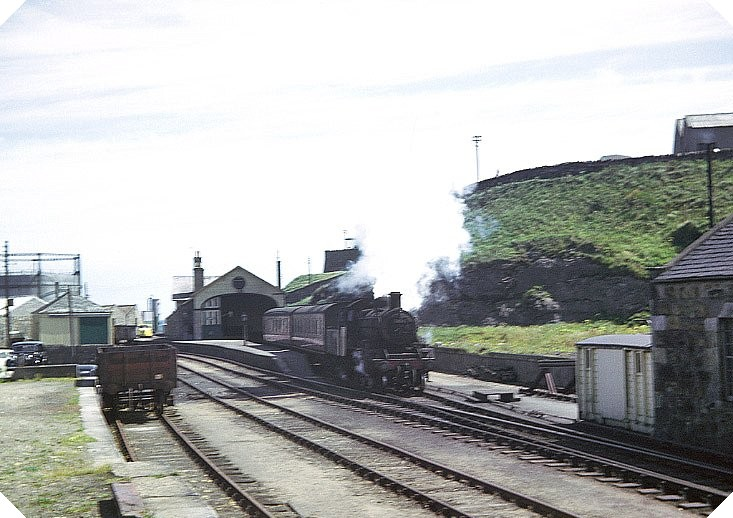 Train hauled by steam locomotive numer 78045 leaves Banff station heading for Tillynaught in June 1964